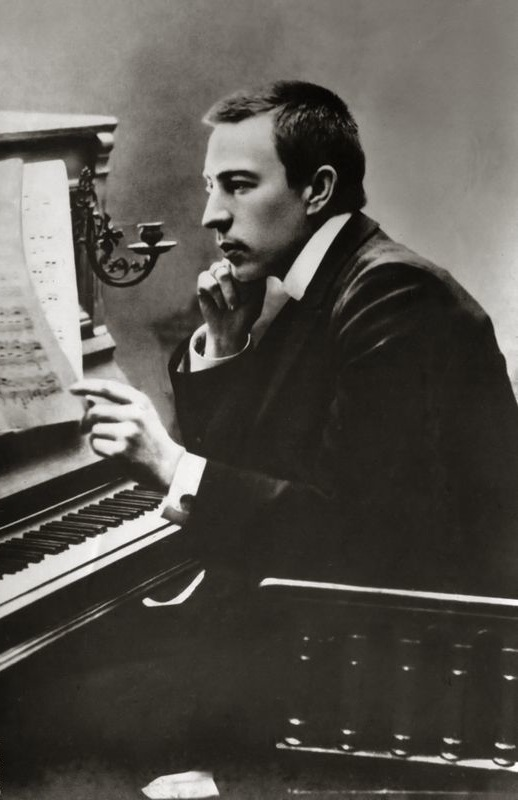 Sergei Rachmaninoff at the piano, early 1900s, about 27 years old.